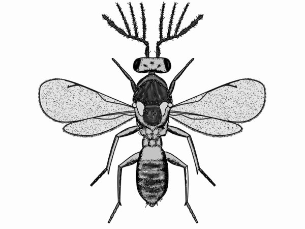 Details Male of Pnigalio mediterraneus (FERRIERE & DELUCCHI, 1957) (Hymenoptera Eulophidae) Date: March 2007 Author: Giancarlo Dessì (Posted by --gian_d 19:51, 20 March 2007 (UTC))